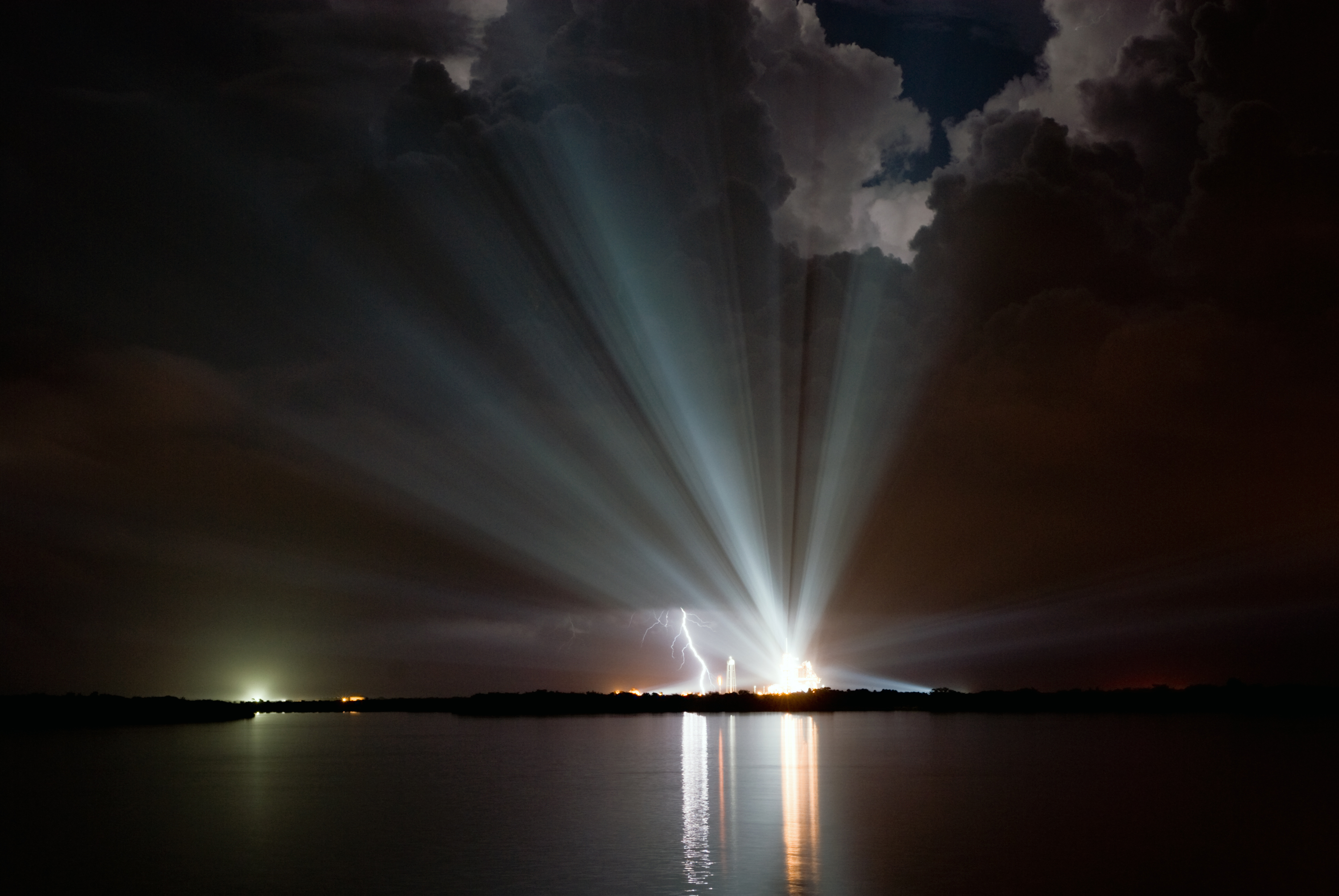 Xenon lights over Launch Pad 39A at NASA's Kennedy Space Center in Florida compete with the lightning strike seen to the left.